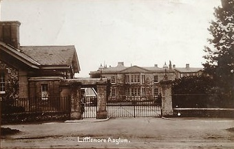 Old postcard showing Littlemore Asylum